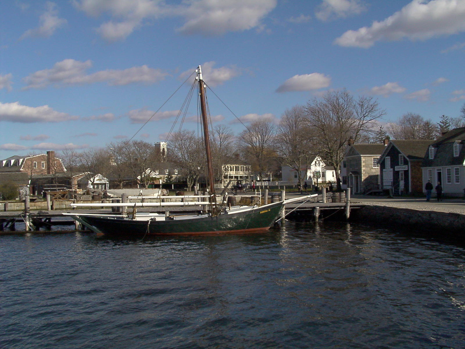 Mystic Seaport, Mystic Connecticut. Wooden boat at dock